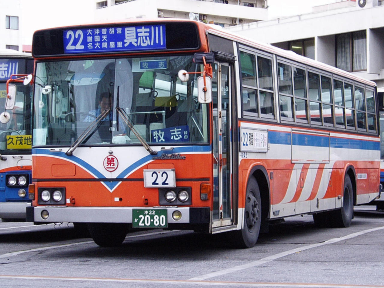 Ryukyu Bus Kotsu